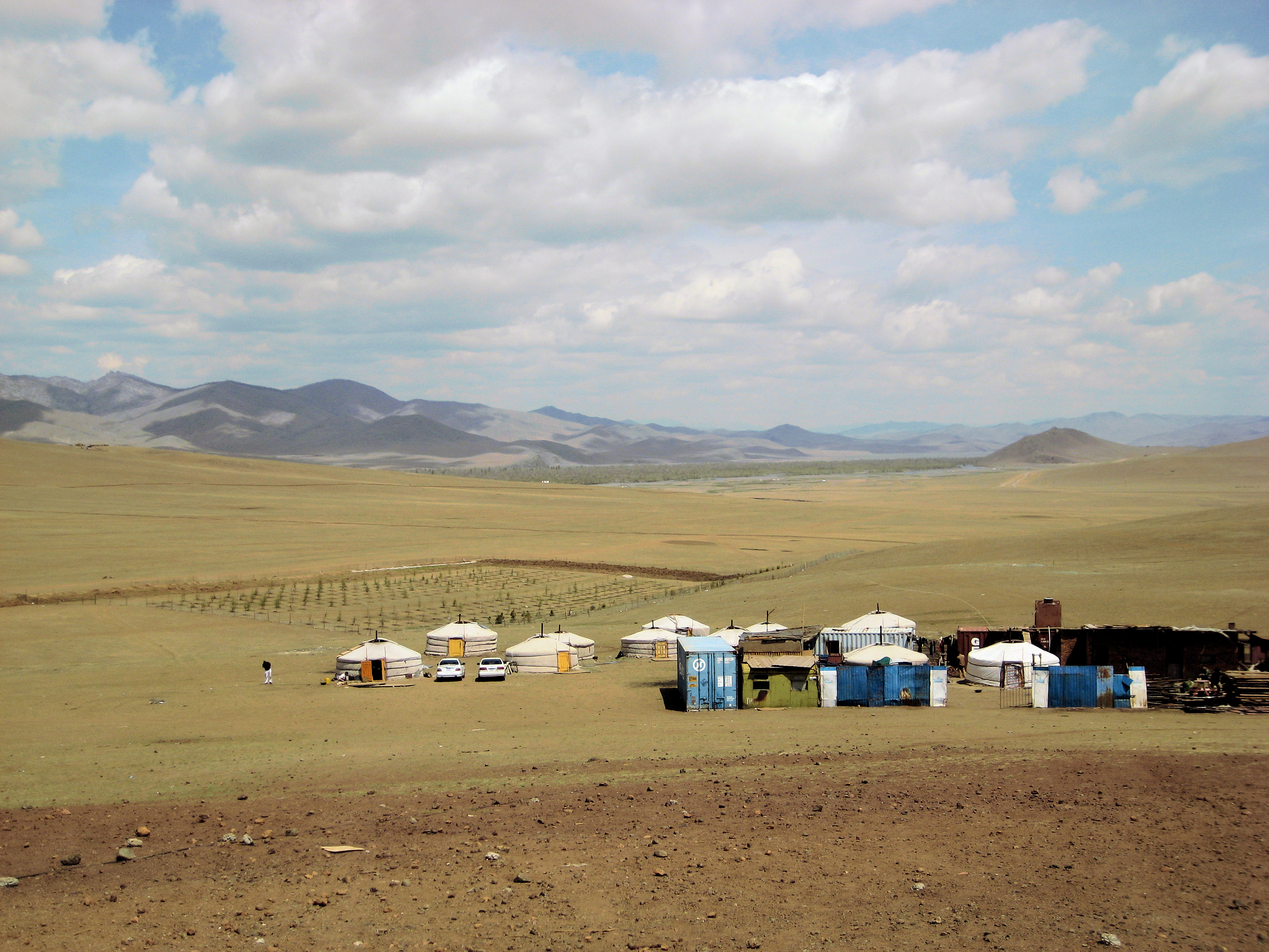 Settlement on the Mongolian steppes